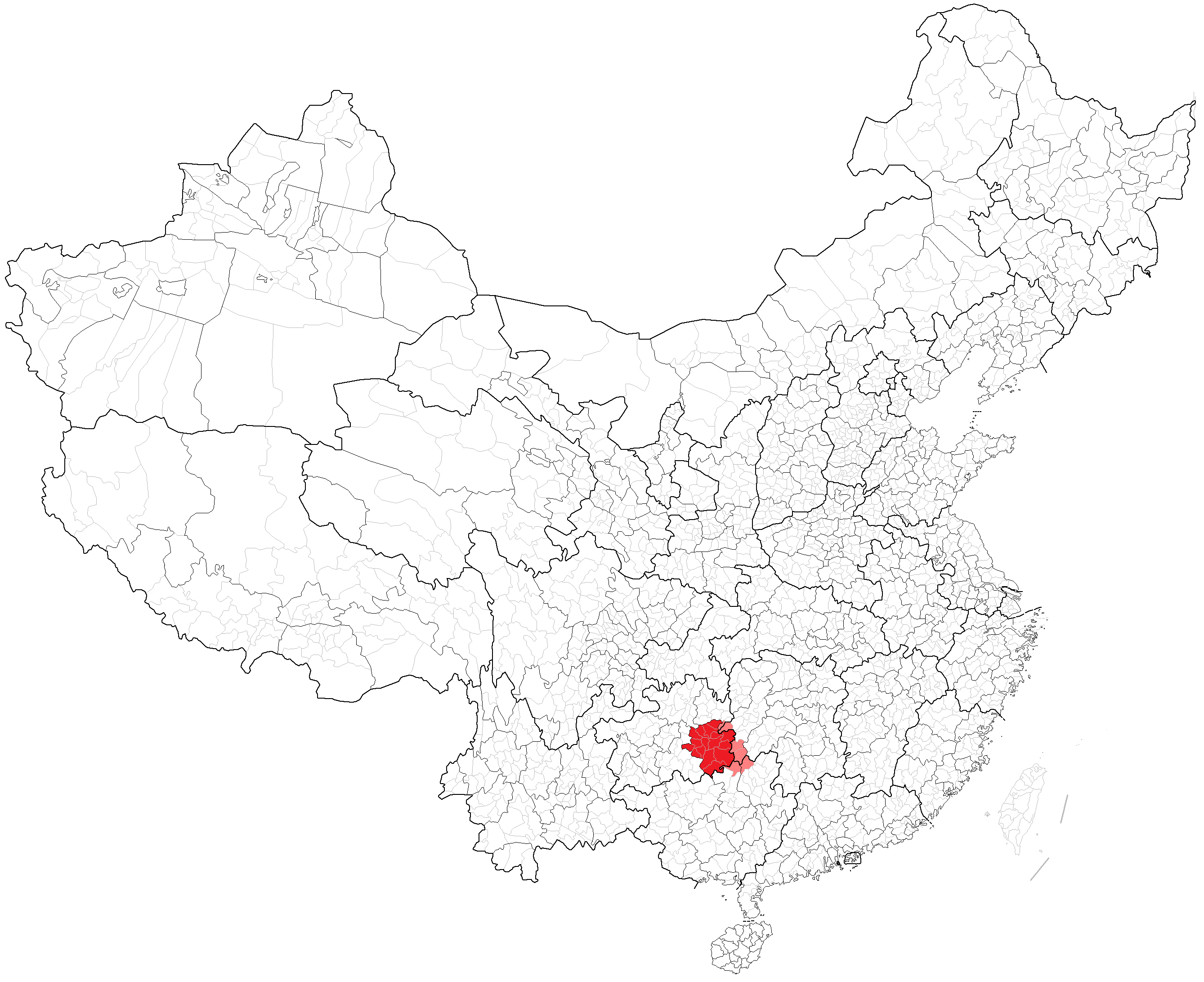 Map of Dong-designated autonomous prefectures and counties in China.